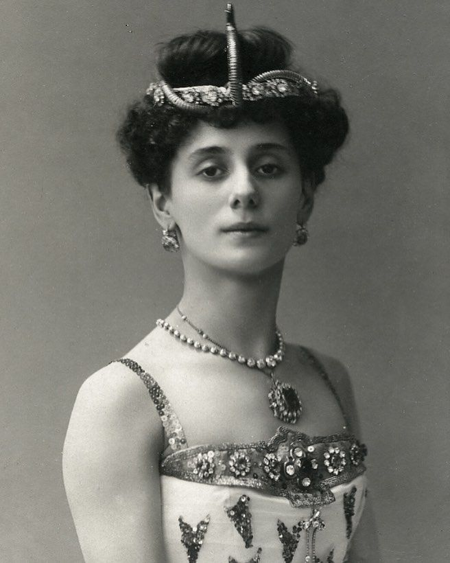 Photographic postcard of Anna Pavlova as the Princess Aspicia in the Petipa/Pugni The Pharaoh's Daughter, Saint Petersburg, circa 1910. Dancer Anna Pavlova performed her celebrated "Glow Worm Dance" in 1915. \n